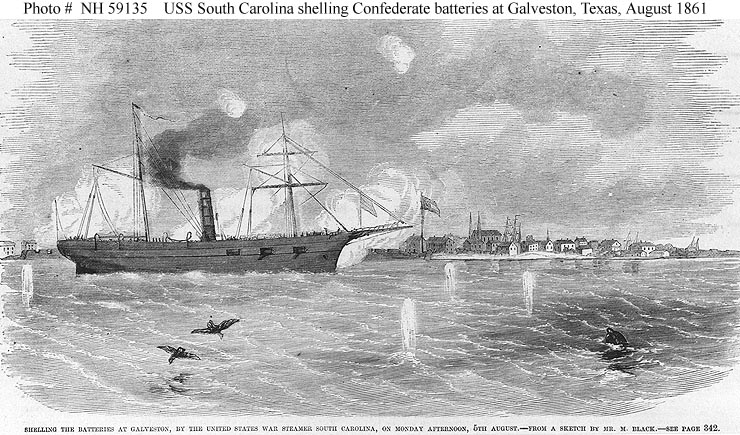 Line engraving published in "Frank Leslie's Illustrated Newspaper", 1861, depicting USS South Carolina in action against Confederate shore batteries at Galveston, Texas, in August 1861.